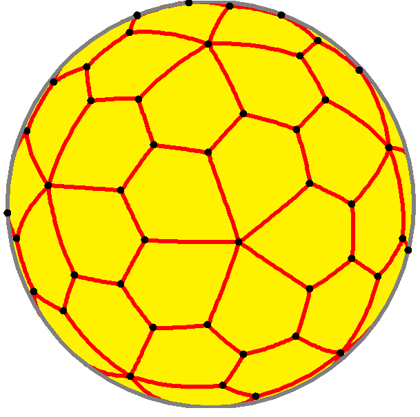 pentagonal hexecontahedron